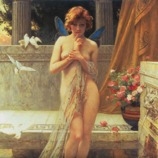 Psyche (full image)